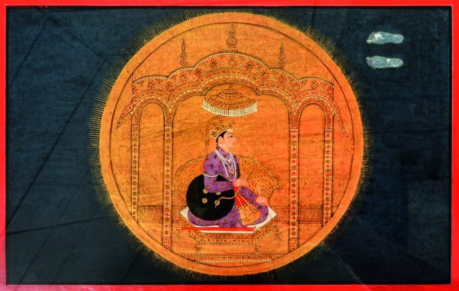 Bhagavata purana series basholi style